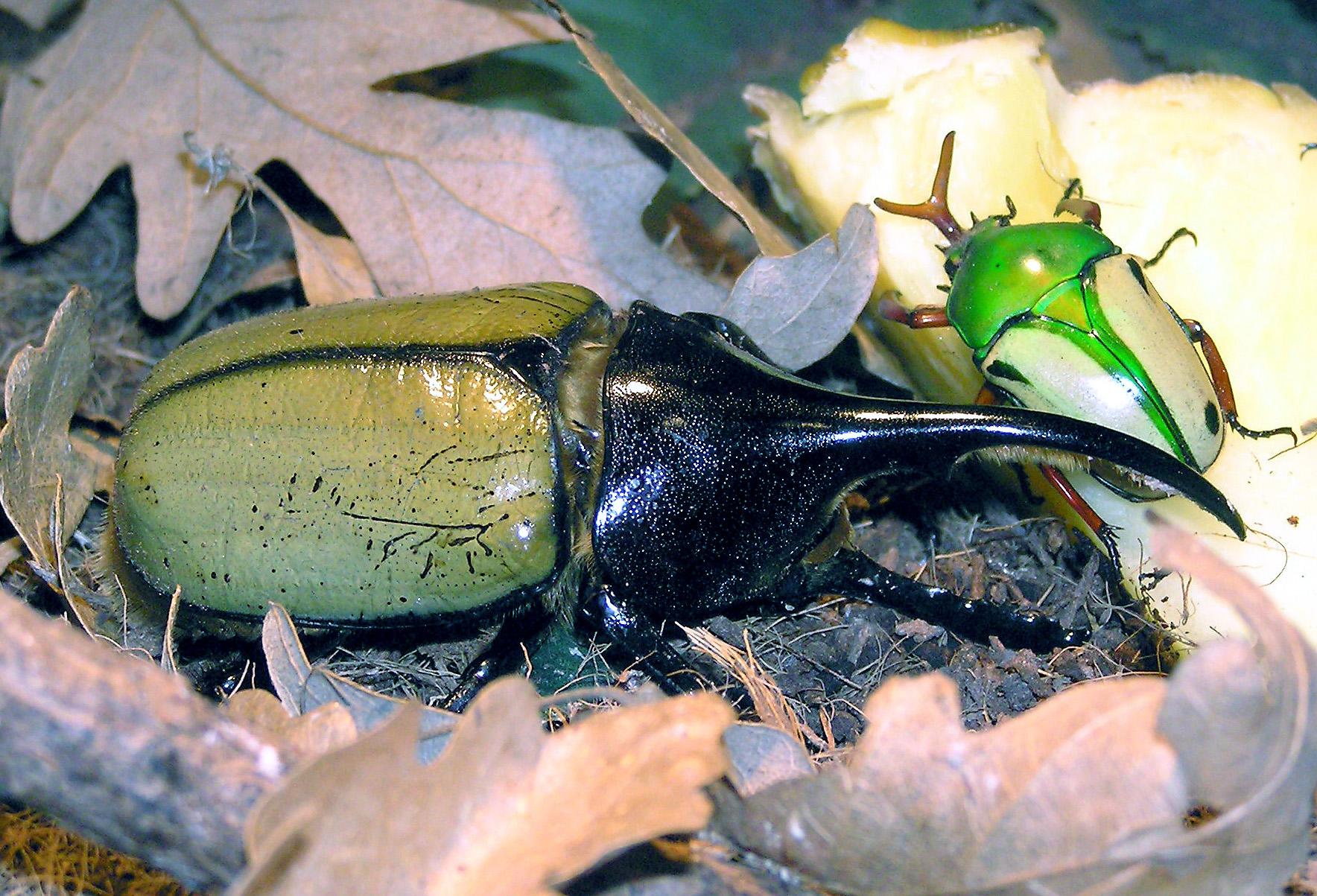 Hercules beetle Dynastes hercules, a member of the Rhinoceros beetle family, at Bristol Zoo, England. The green beetle on the right is a Jade headed buffalo beetle Eudicella smithii.